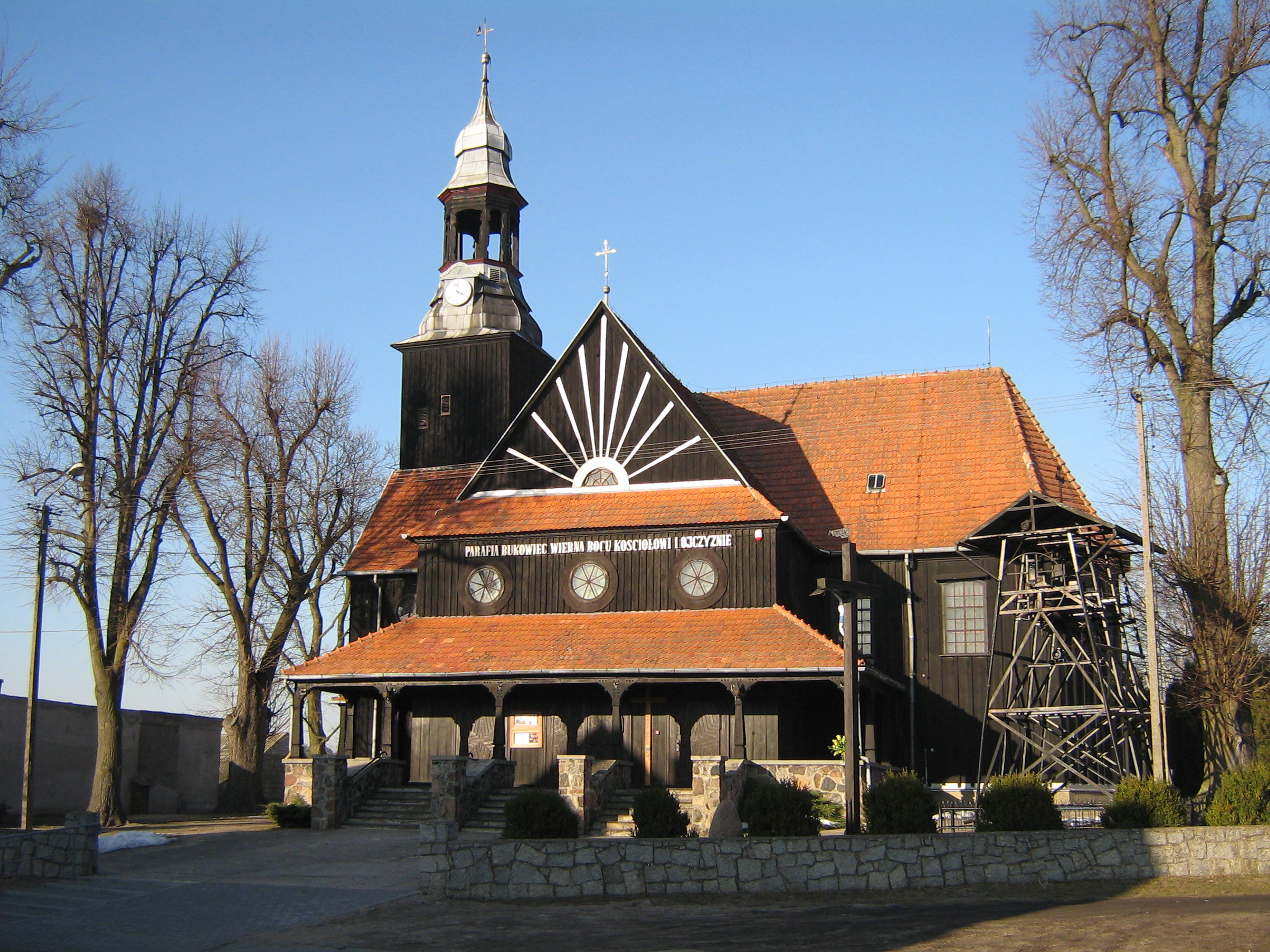 St Martins Church, Bukowiec (Poland)